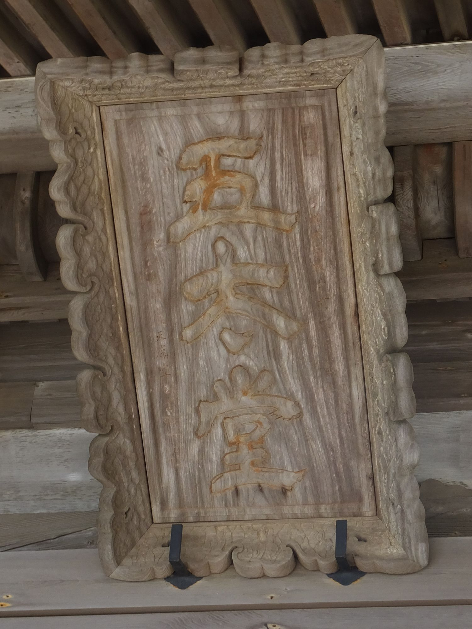 Plaque of Godaidō hall in Matsushima, Miyagi